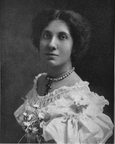 Edna May Spooner, from a 1907 publication.